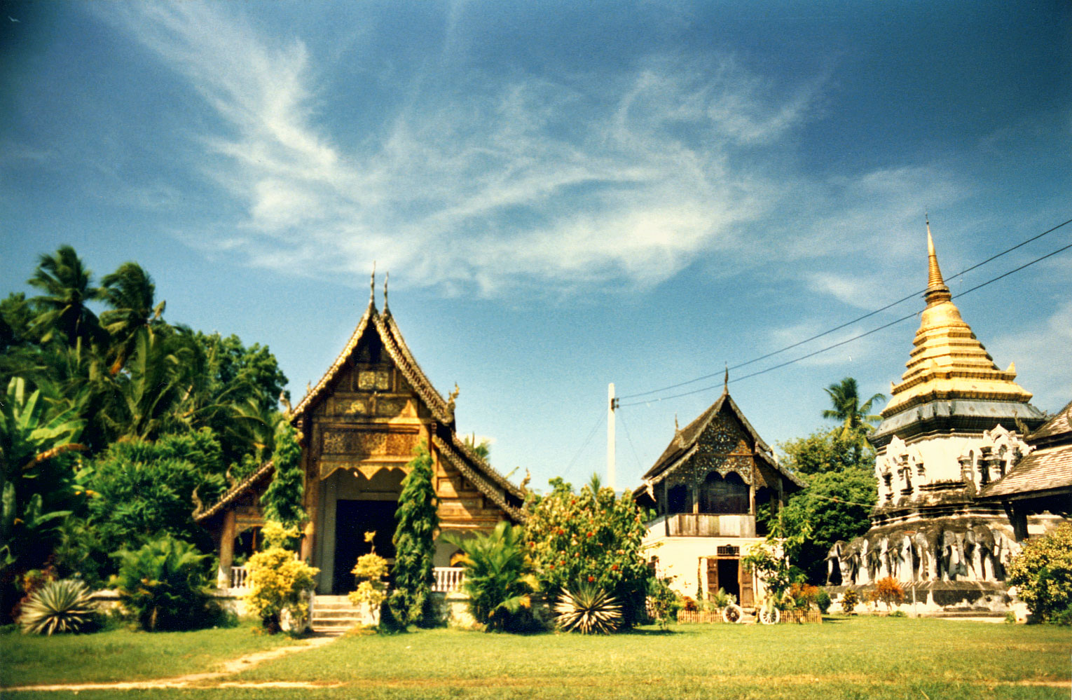 Wat Chiang Man, Chiang Mai, northern Thailand. From left to right: Ubosot, Hor Trai, Chedi.